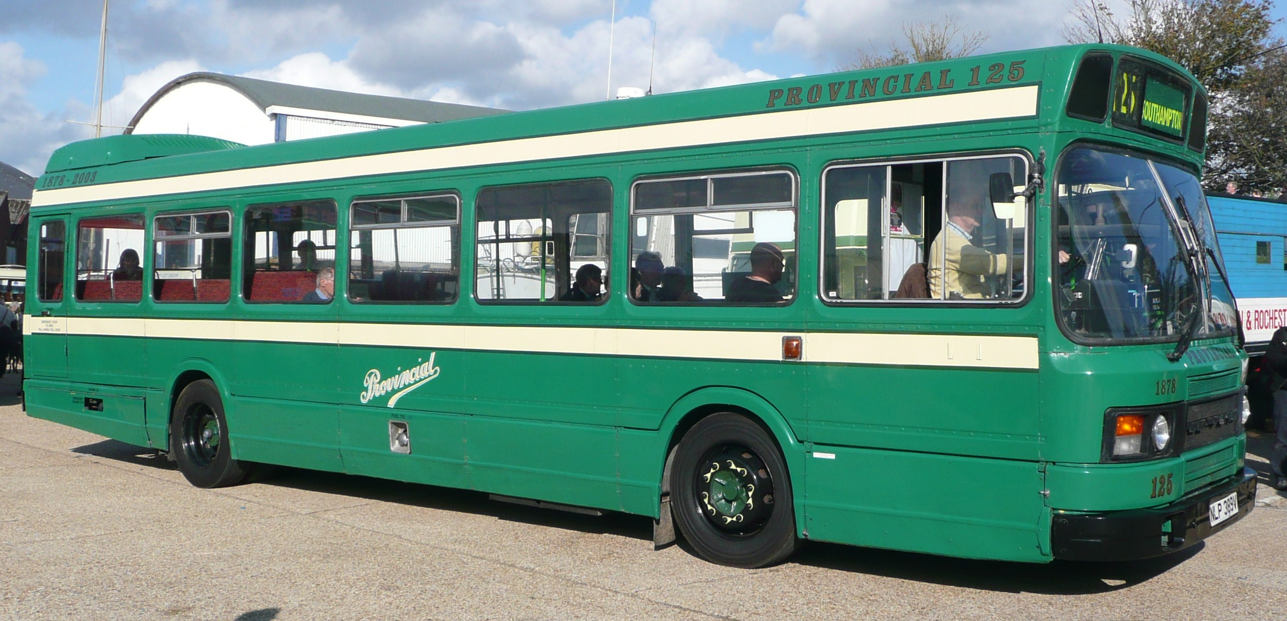 Preserved ex-Provincial NLP 389V, a Leyland National 2, at the 2008 Isle of Wight Bus Museum running day.